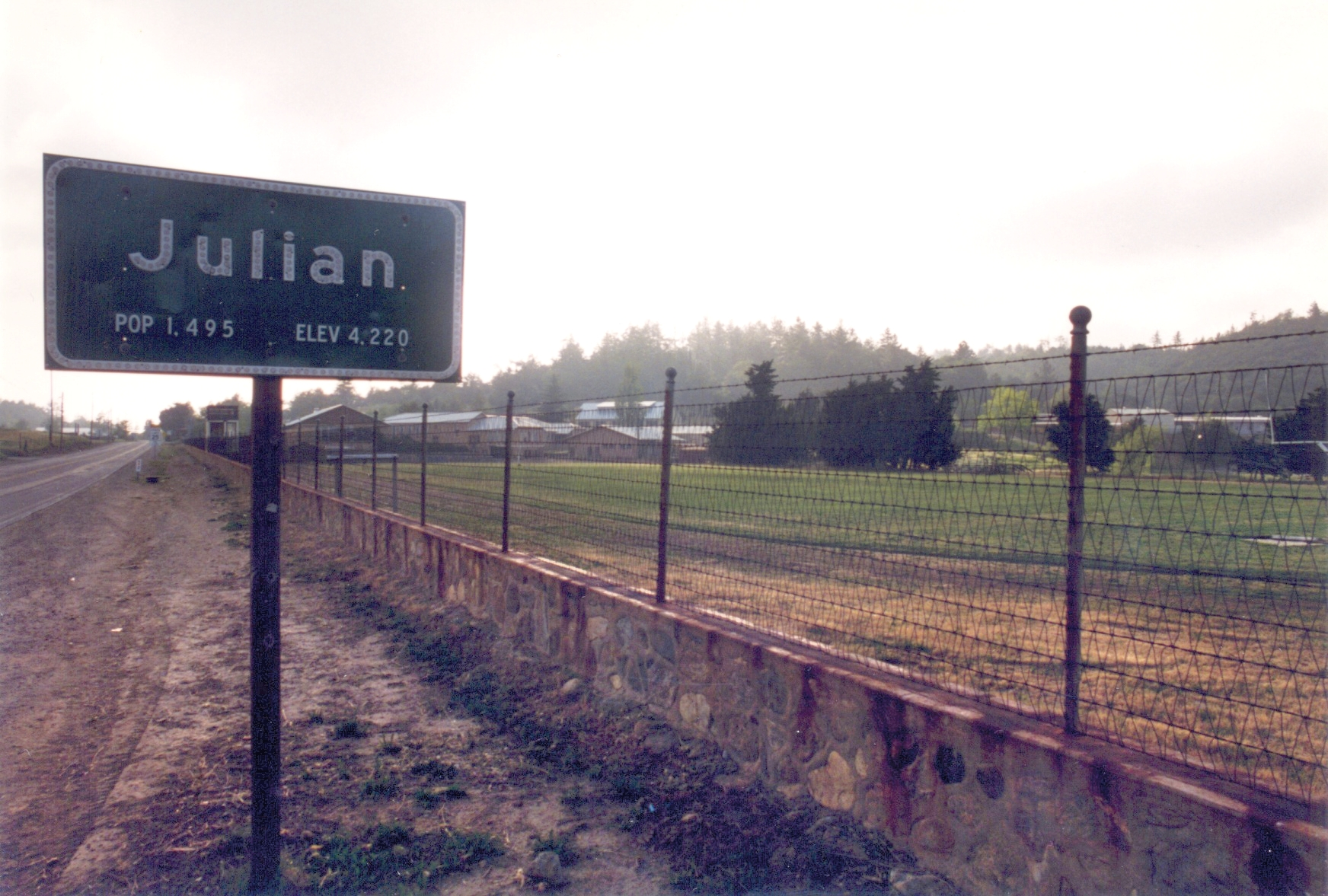 Nameplace for the city of Julian, Ca. My own picture, June 1995.